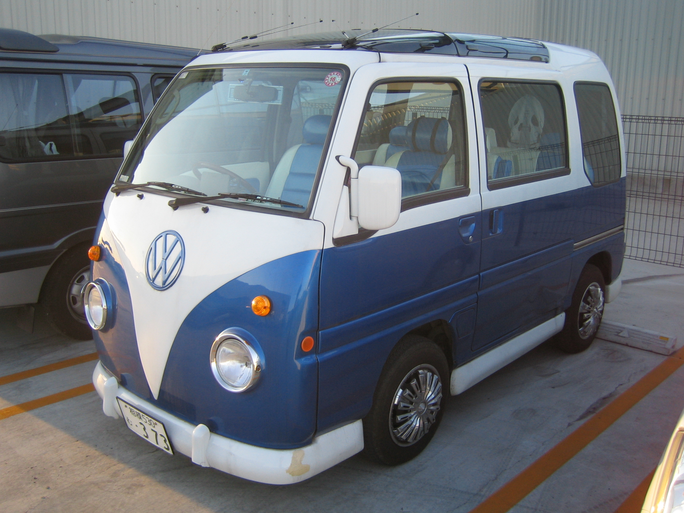 This vehicle is a look-alike version of the Volkswagen Typ 2 Bus (Van) from the 1960s. This bus (van) is being manufactured in Japan as the Subaru Sumber microvan retro-Kombi conversion.